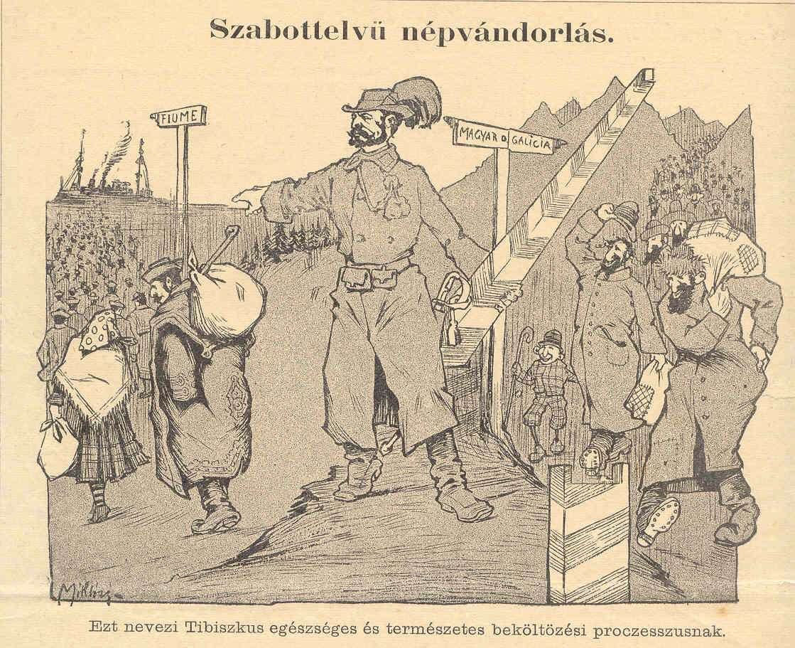 Anti-Semitic mockery against Pm. István Tisza. Ethnic Hungarian "mass exodus" to the USA via the port of Fiume (Rijeka) , meanwhile mass immigration of Jews from Galicia. Tisza is depicted on the middle of the picture (holding the turnpike of the border) as the chief organizer of the "population exchange". The inscription reads: "Tibiskus (nickname for István Tisza) calls this as a healthy and natural migration process."